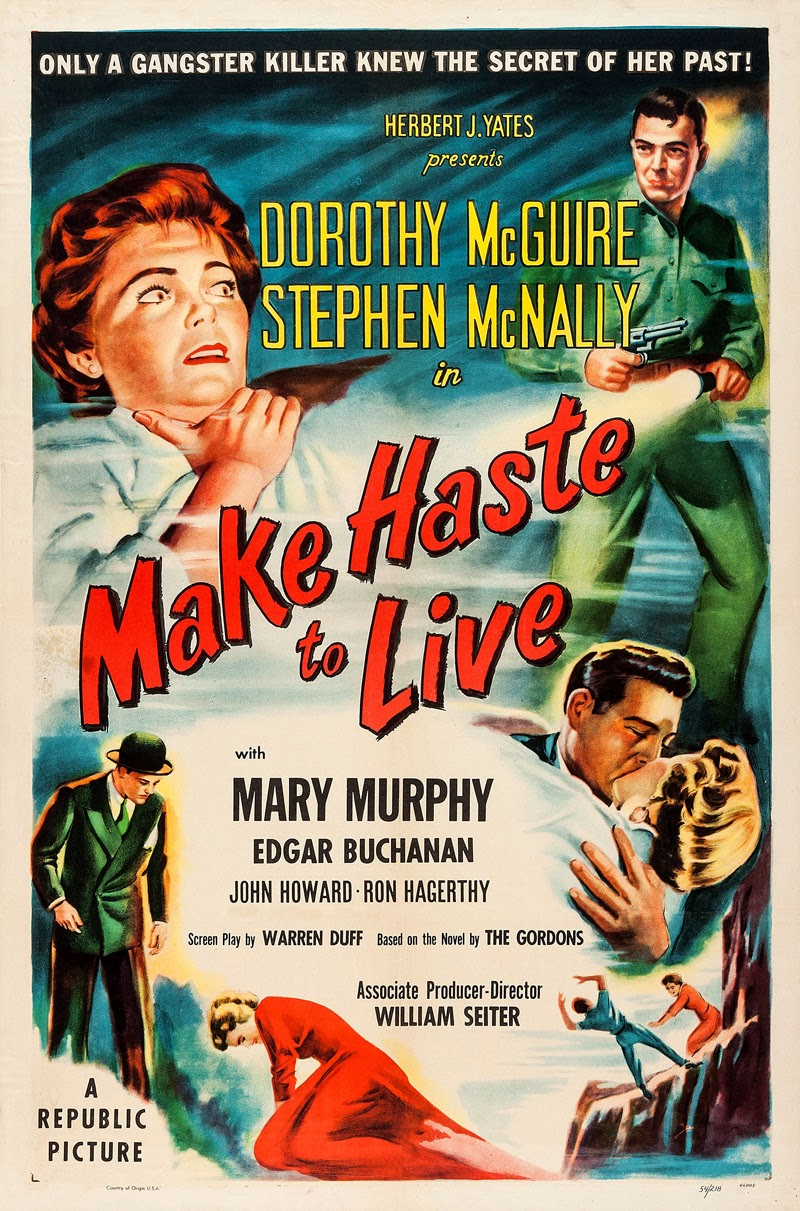 Poster for the 1954 film Make Haste to Live. The item has no copyright markings on it as can be seen in the links above. At bottom is Country of origin USA, 54/218 and 46008=these appear to relate to the printing of the poster.